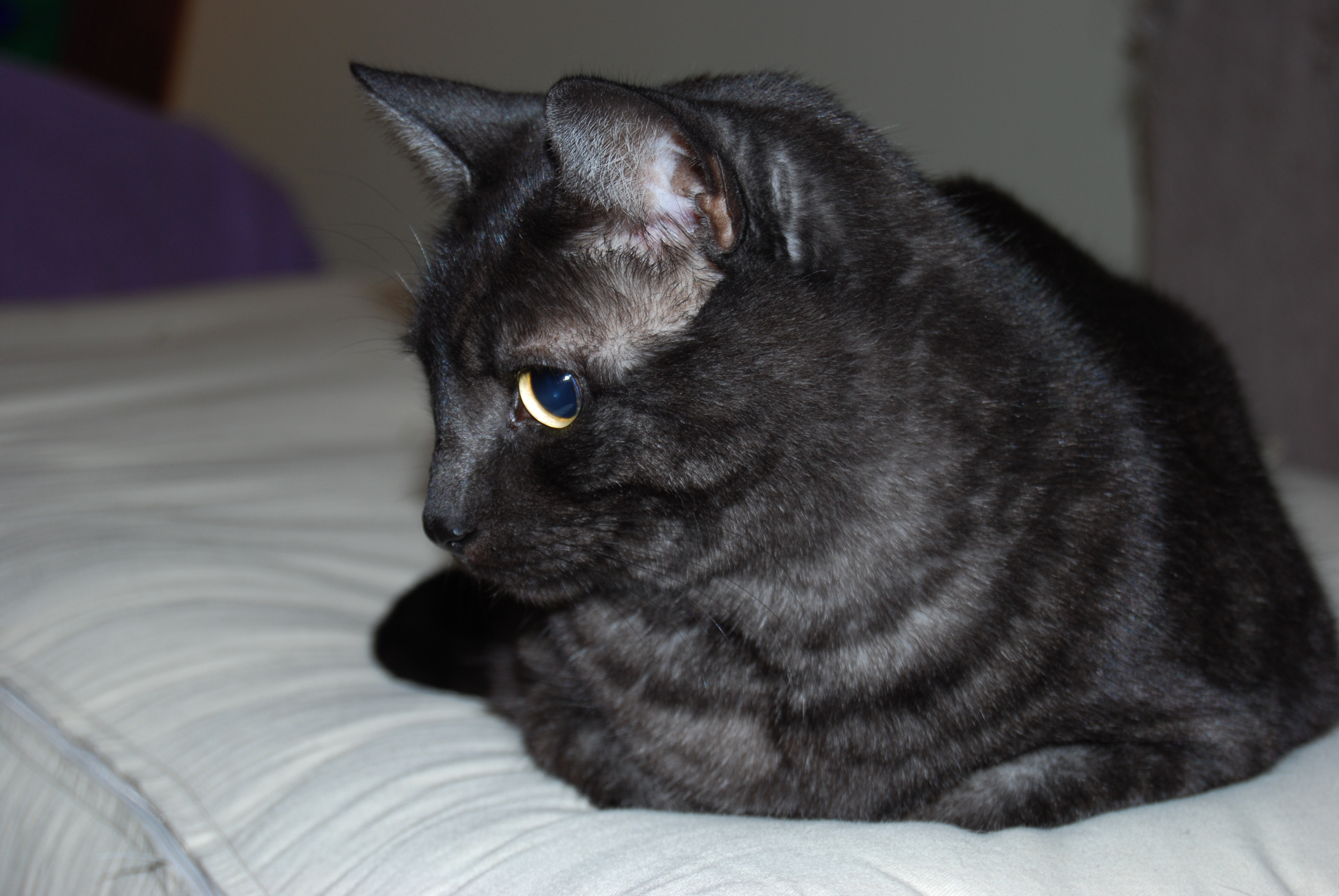 Asian cat - Asian smoke (black) colour